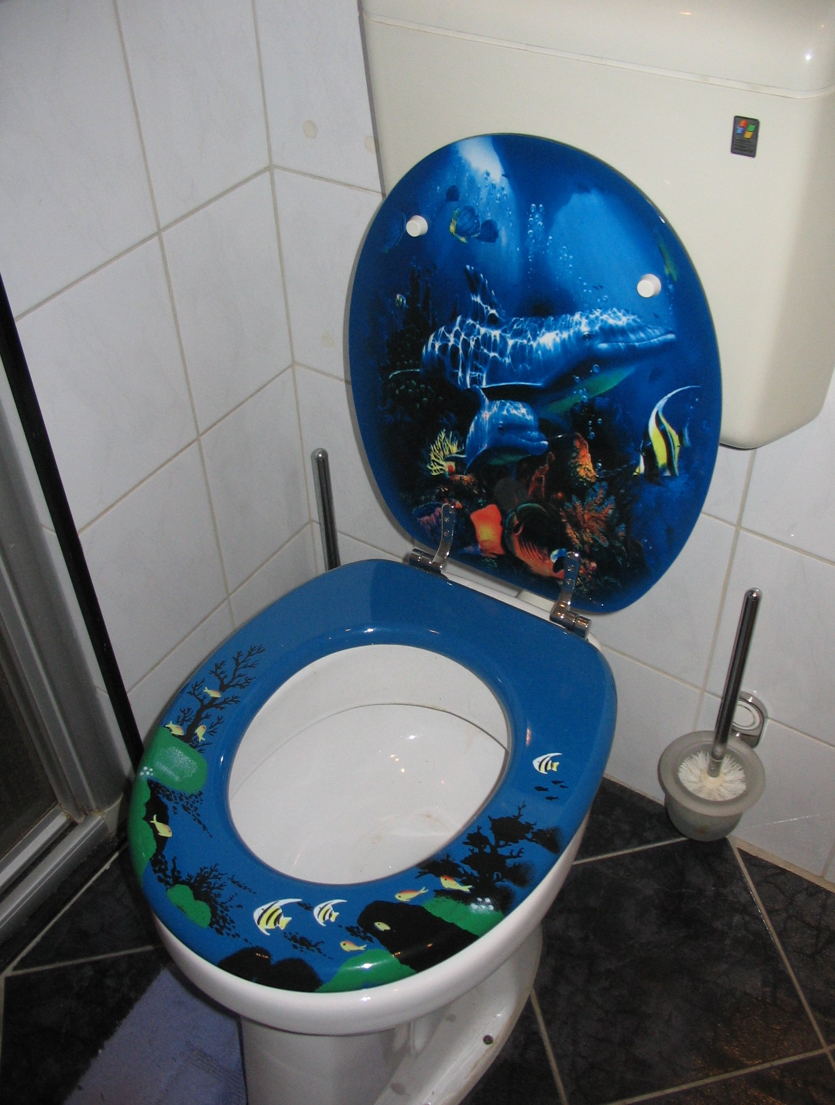 Toilet seat with decorative design